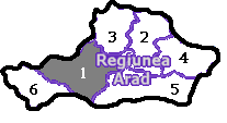 Outlining of Arad region, RPR